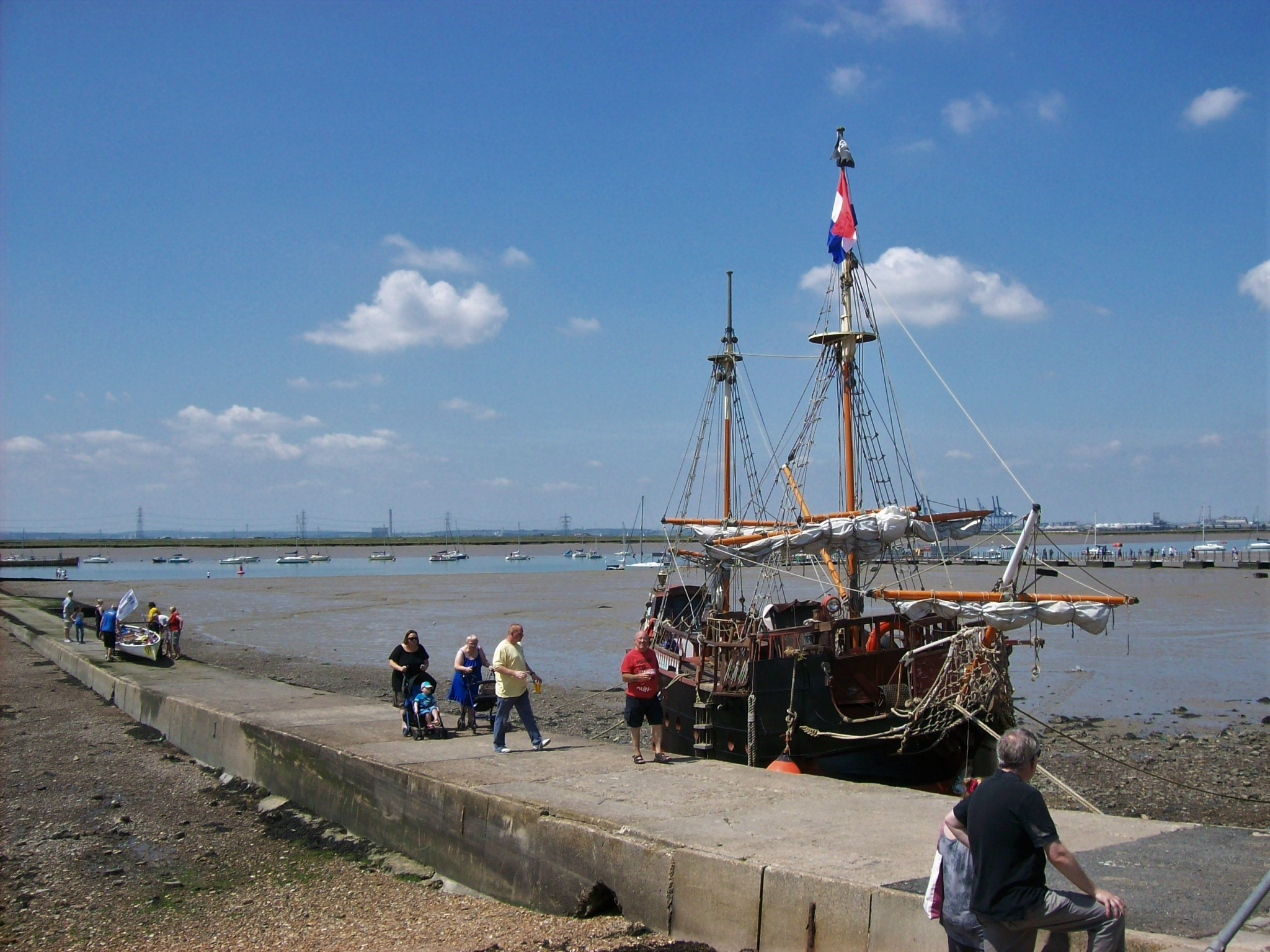 Queenborough, slipway and pirate ship